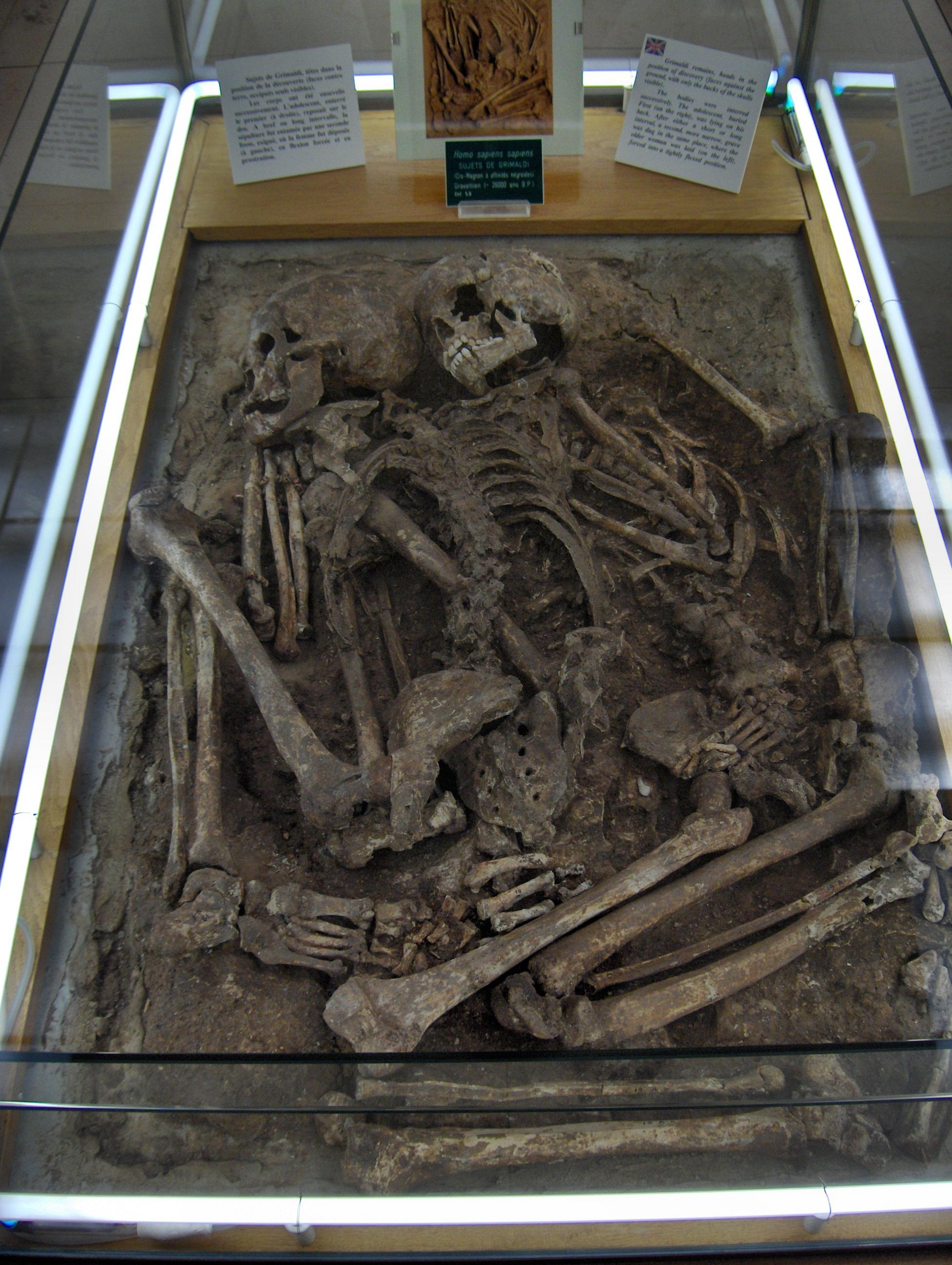 Homo sapiens sapiens, Cro-Magnon, finds of Grimaldi; Museum of prehistoric anthropology; Monaco